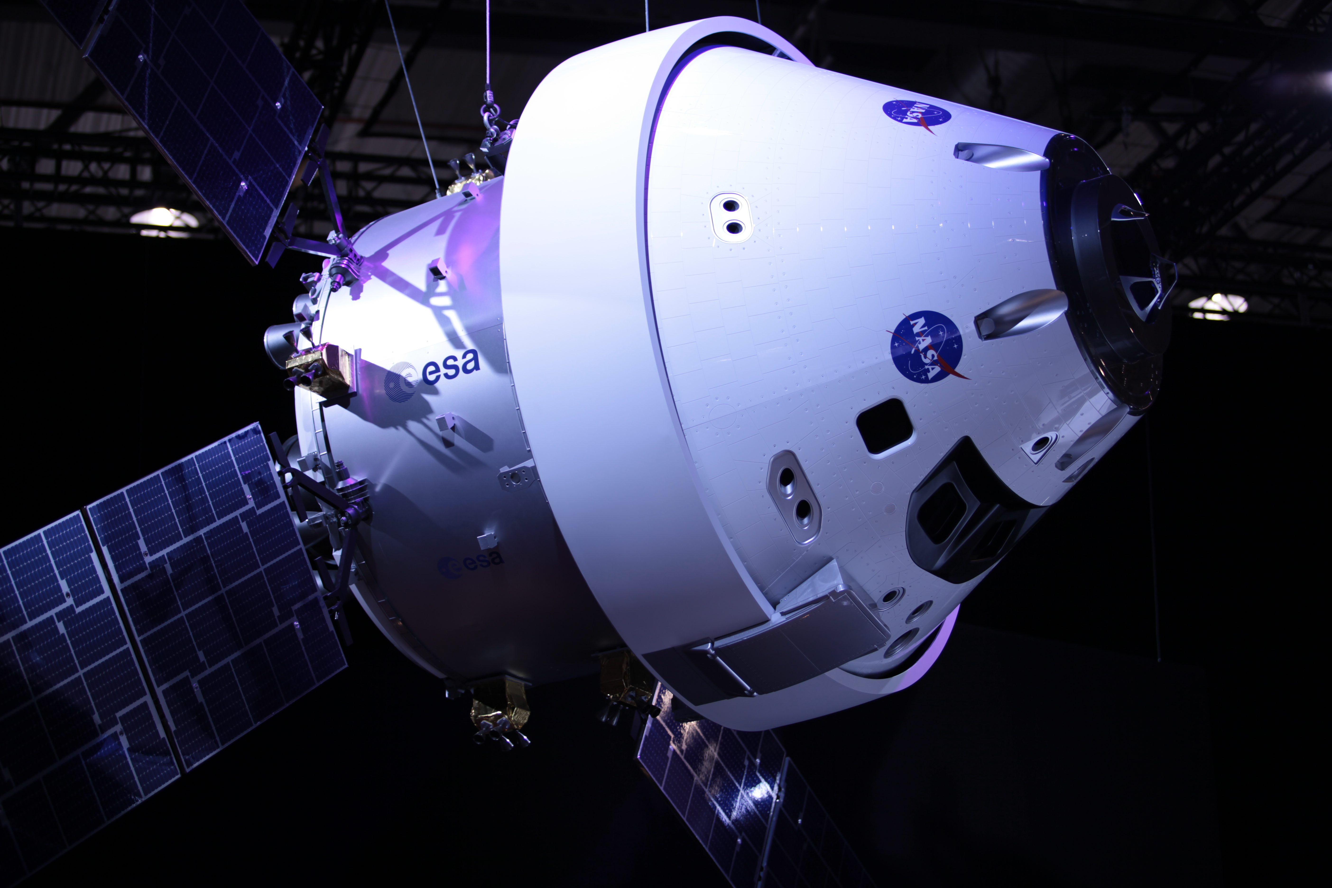 Multi Purpose Crew Vehicle – Europäisches Sercivemodul: das Konzept basiert auf dem europäischen Weltraumtransporter ATV / Multi Purpose Crew Vehicle – European Service Module for NASA’s Orion programme